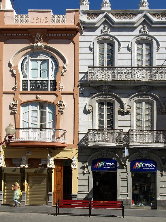 Las Palmas de Gran Canaria , Calle Mayor de Triana, photo 2009